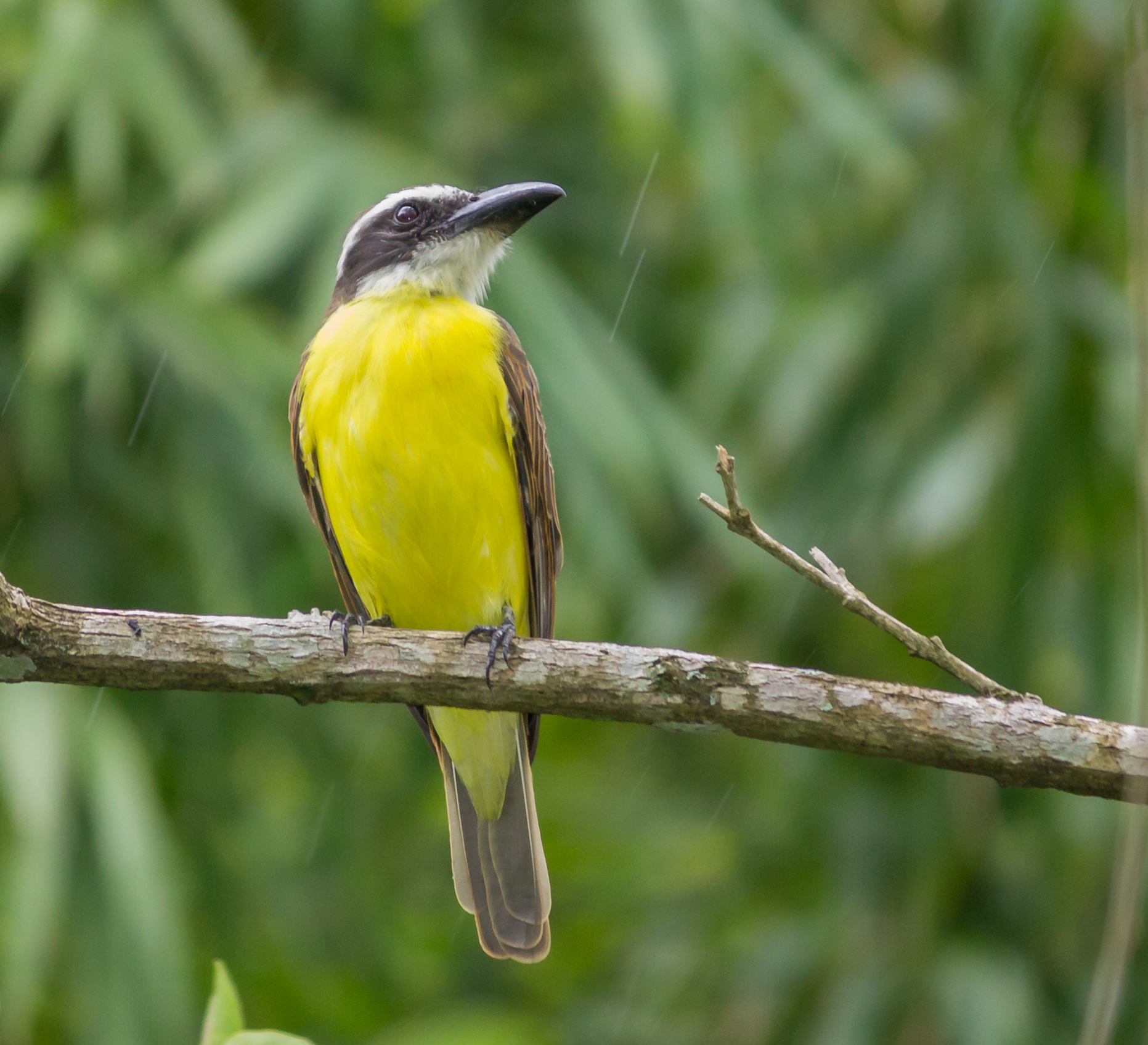 Trinidad